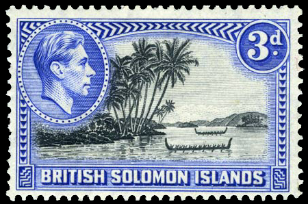 Stamp of the British Solomon Islands, canoe and palms, 1939, 3d, SG#65.